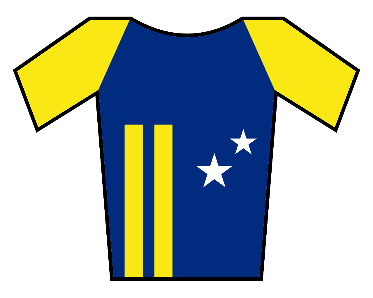 national champions jersey of Curacao